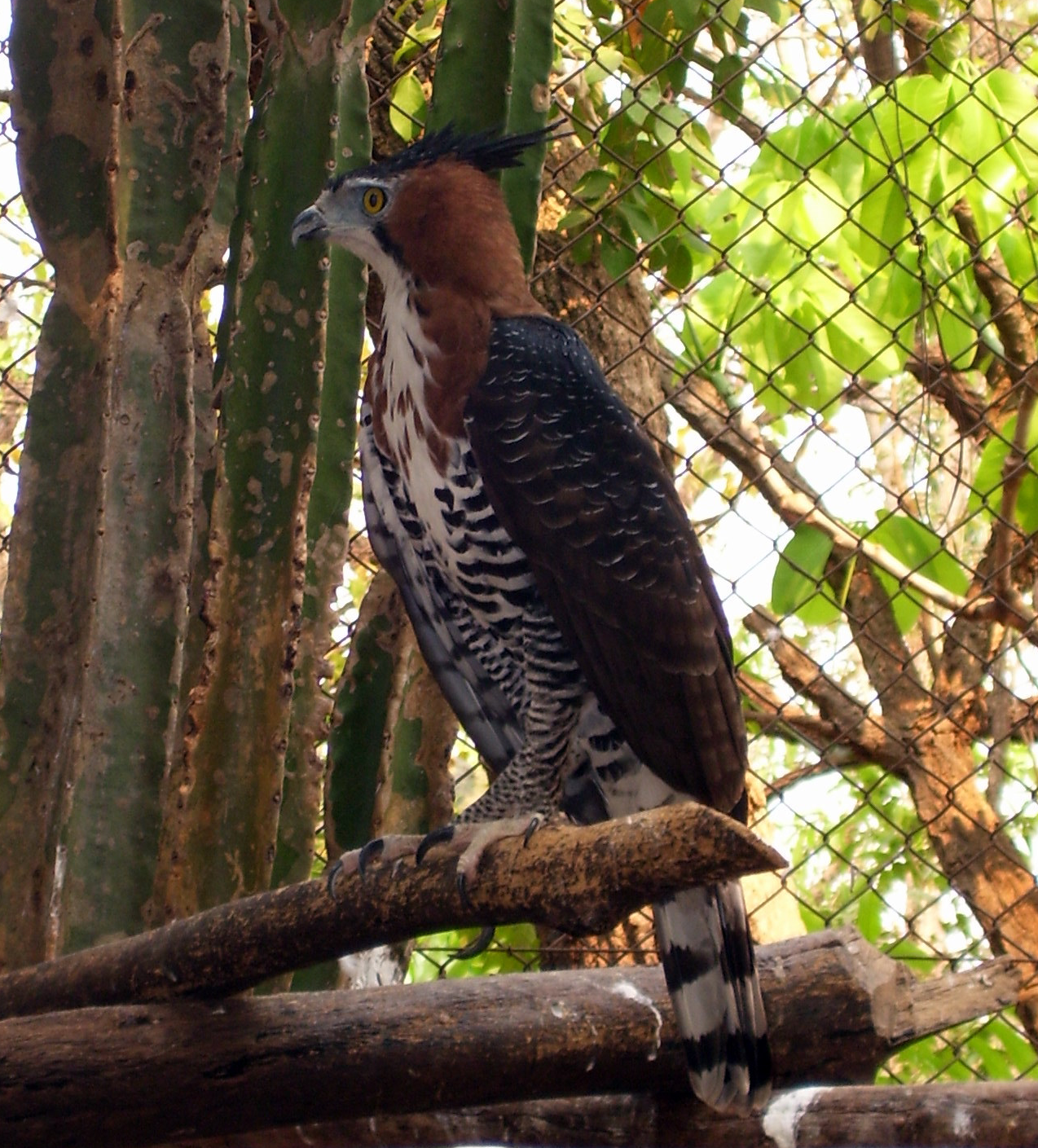 Ornate Hawk-eagle (Spizaetus ornatus), in the zoo of Federal University of Mato Grosso, Cuiabá, Brazil.